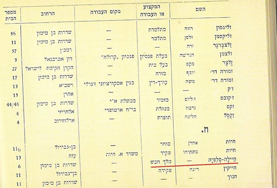 Haile Selassie listed among residents of Rehavia, Jerusalemr in 1936 census, occupation- King of Ethiopia